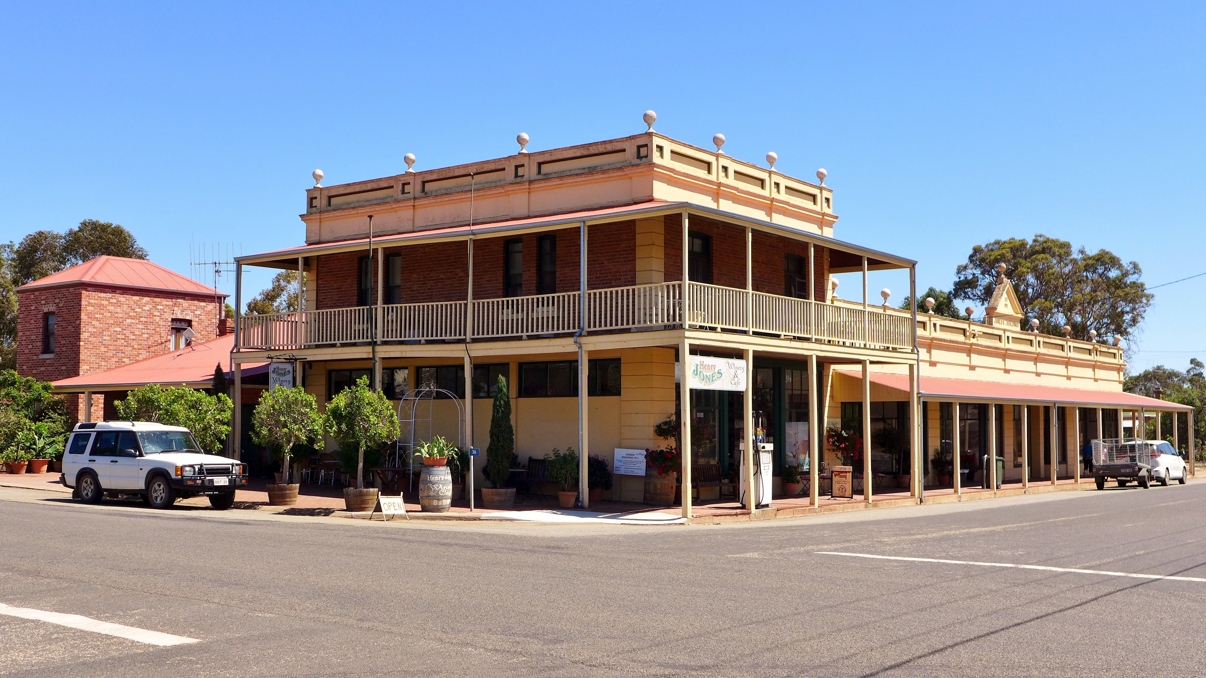 View of the Henry Jones Building, Broomehill, Western Australia